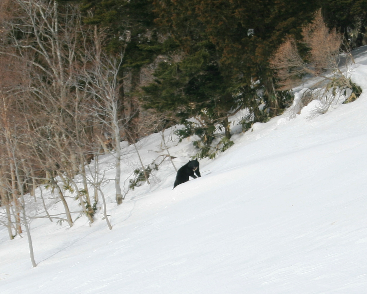 Ursus thibetanus (Asian black bear) in Mount Kurai ,Japan.